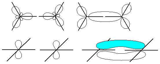 Double bond orbital picture